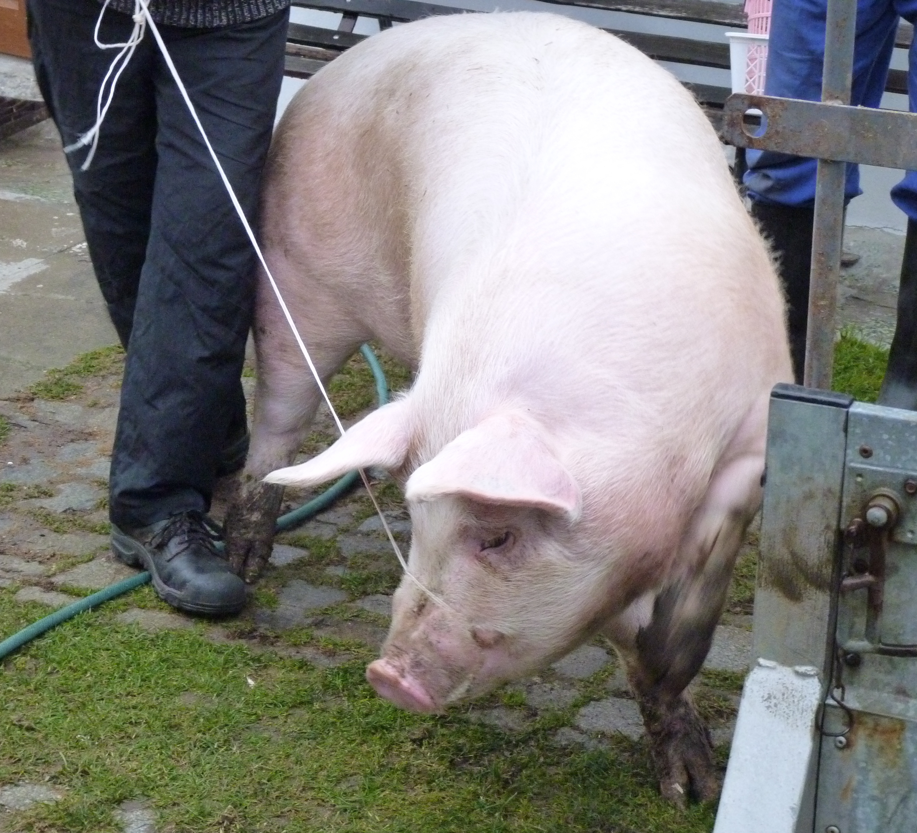 Pig slaughter in the Czech Republic